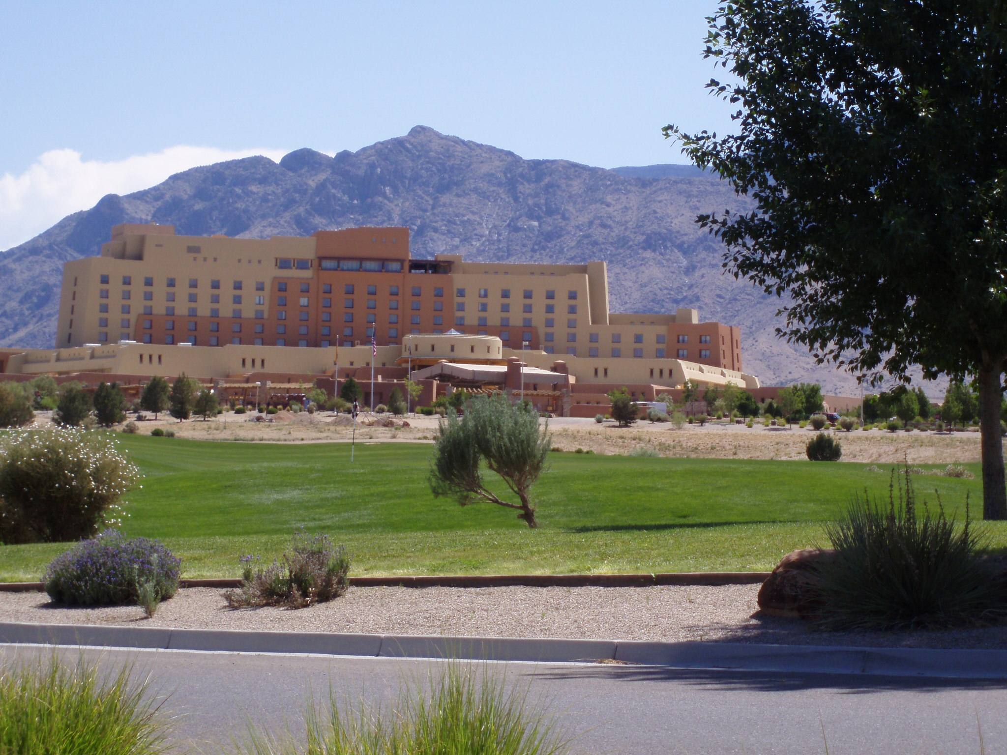 One of the Native American casinos that surround Albuquerque, built in pueblo style architecture. North end of the Sandia Mountains in the background. The green in the foreground is part of the golf course.